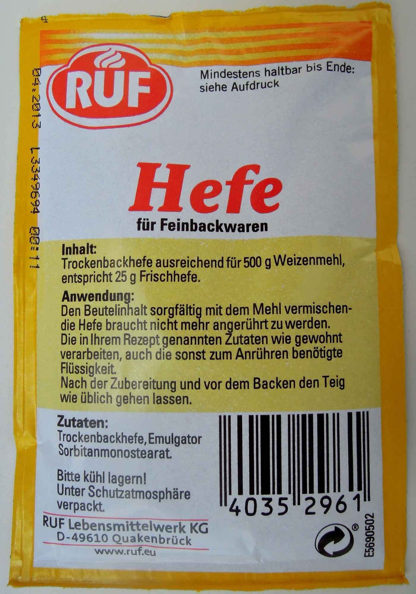 Package of active dry yeast